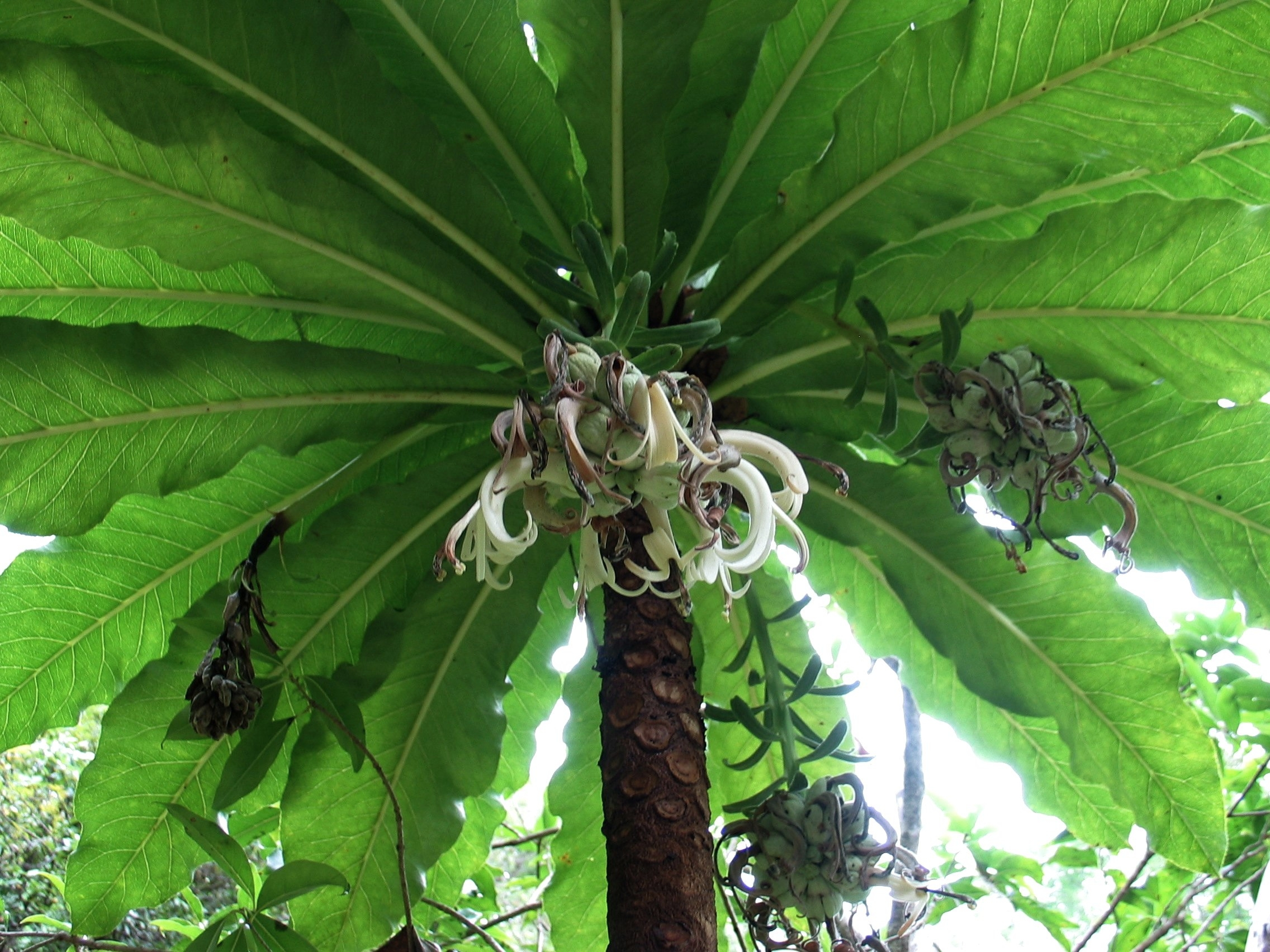 Hāhā or Superb cyanea Campanulaceae Endemic to the Hawaiian Islands (Oʻahu only) Endangered N. Waiʻanae Range, Oʻahu